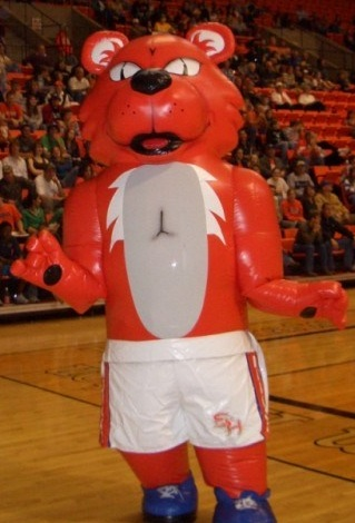 Airkat at the Johnson Coliseum